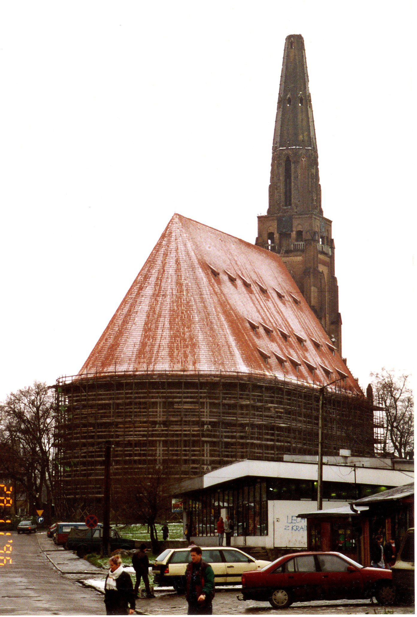 Zdjęcie wykonane w raku ukończenia zadaszenia obiektu